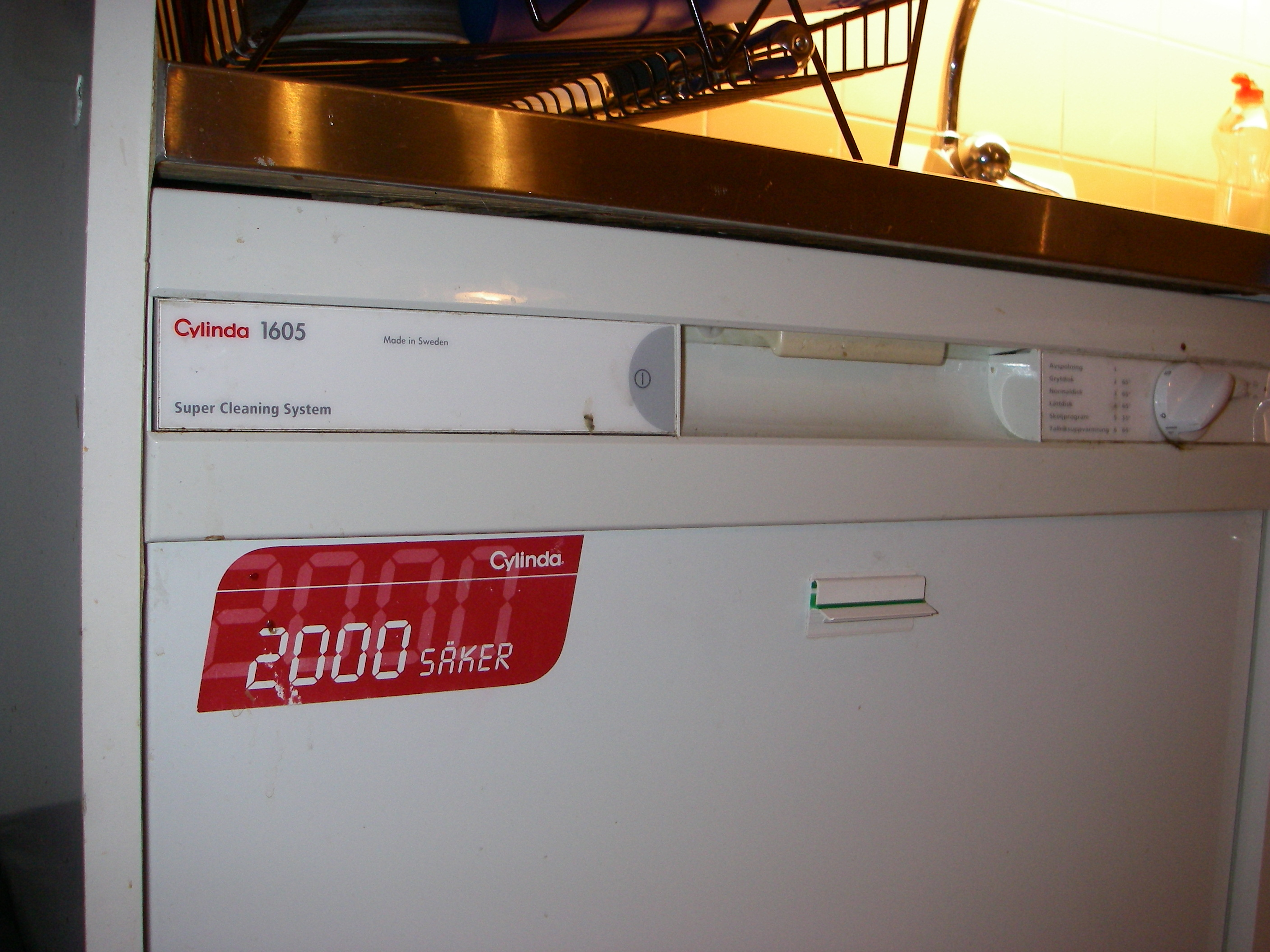 Y2k safe dishwasher